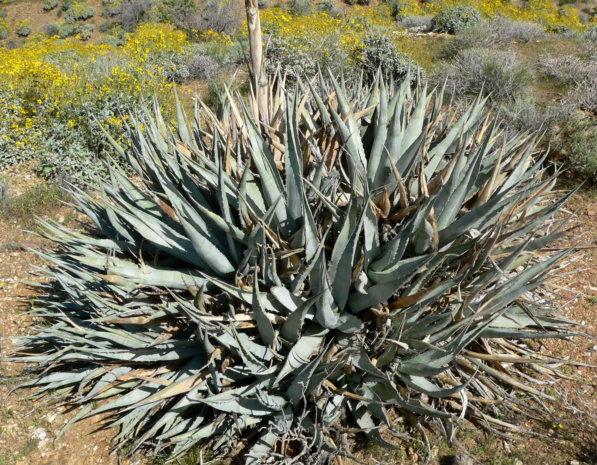 Photo of Agave deserti in Palm Canyon, California